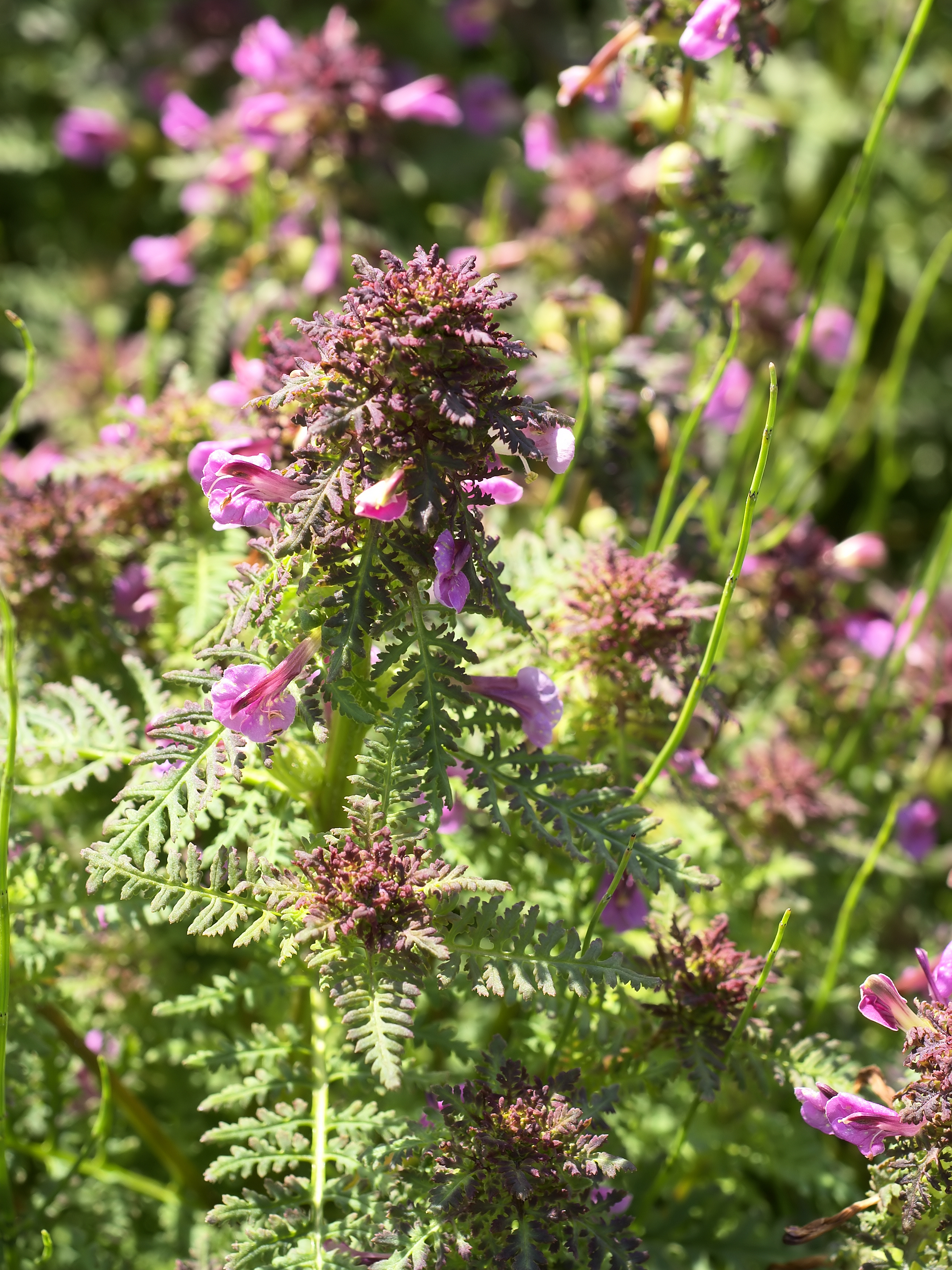 Marsh Lousewort, Oostkamp, Belgium.